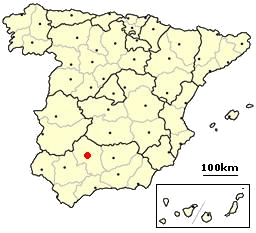 Location of Córdoba in Spain.